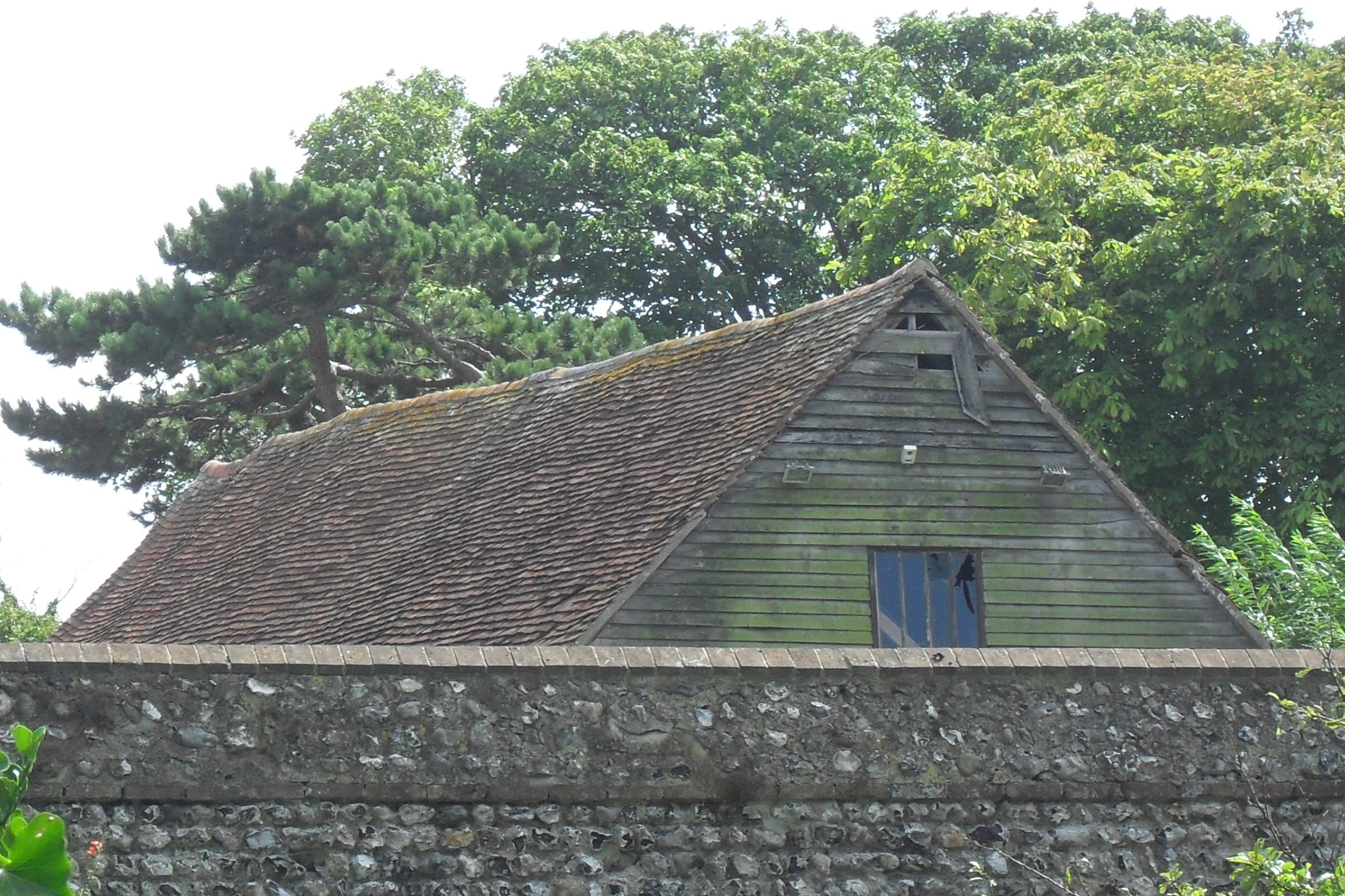 Barn in the grounds of Hillside, The Green, Rottingdean, City of Brighton and Hove, East Sussex. An 18th-century barn in the grounds of this large house of the same date in the centre of Rottingdean. Listed at Grade II by English Heritage (IoE Code 481352)